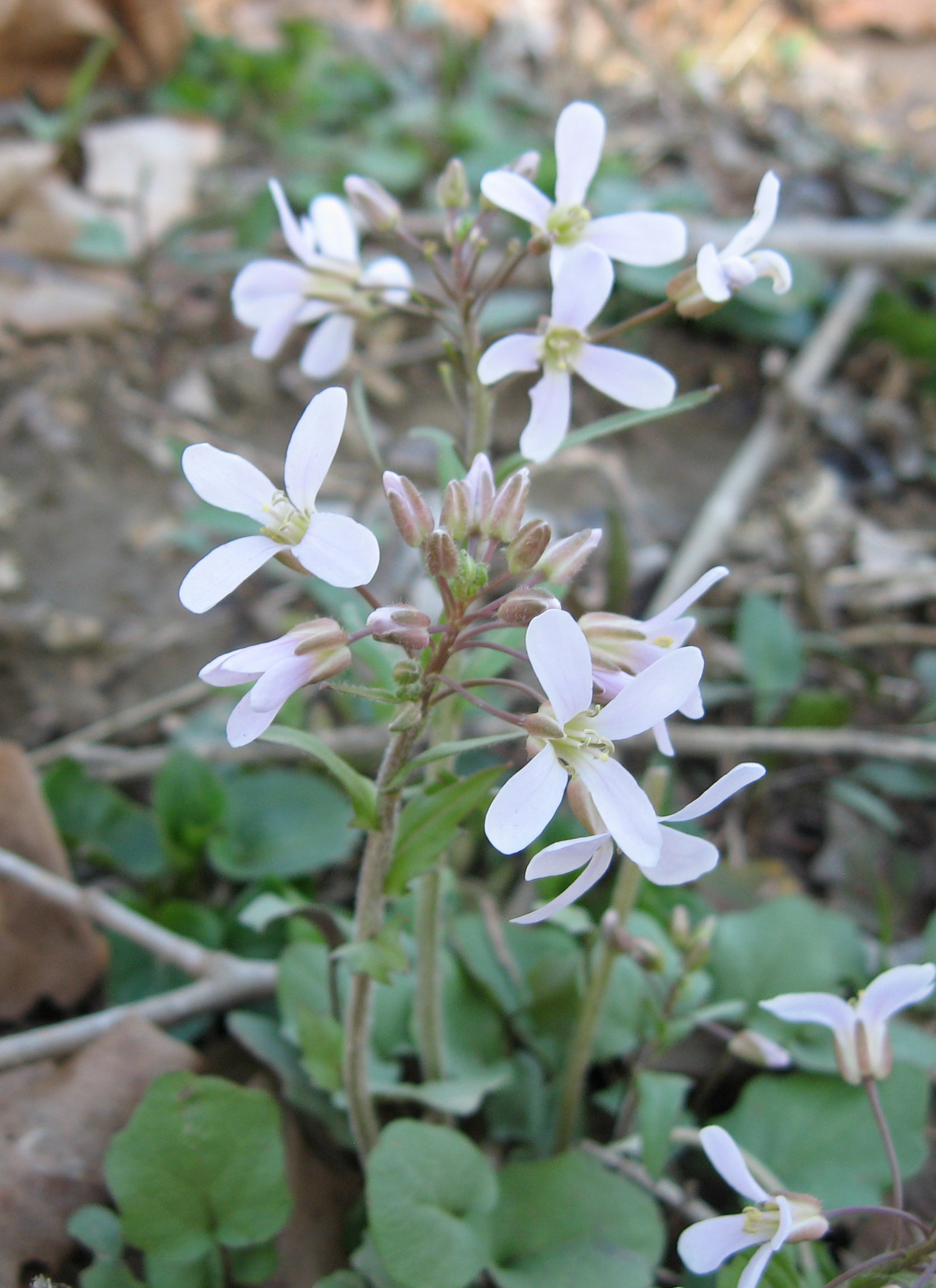 Cardamine douglassii, riparian forest in Fort Boonesborough State Park, Madison County, Kentucky.